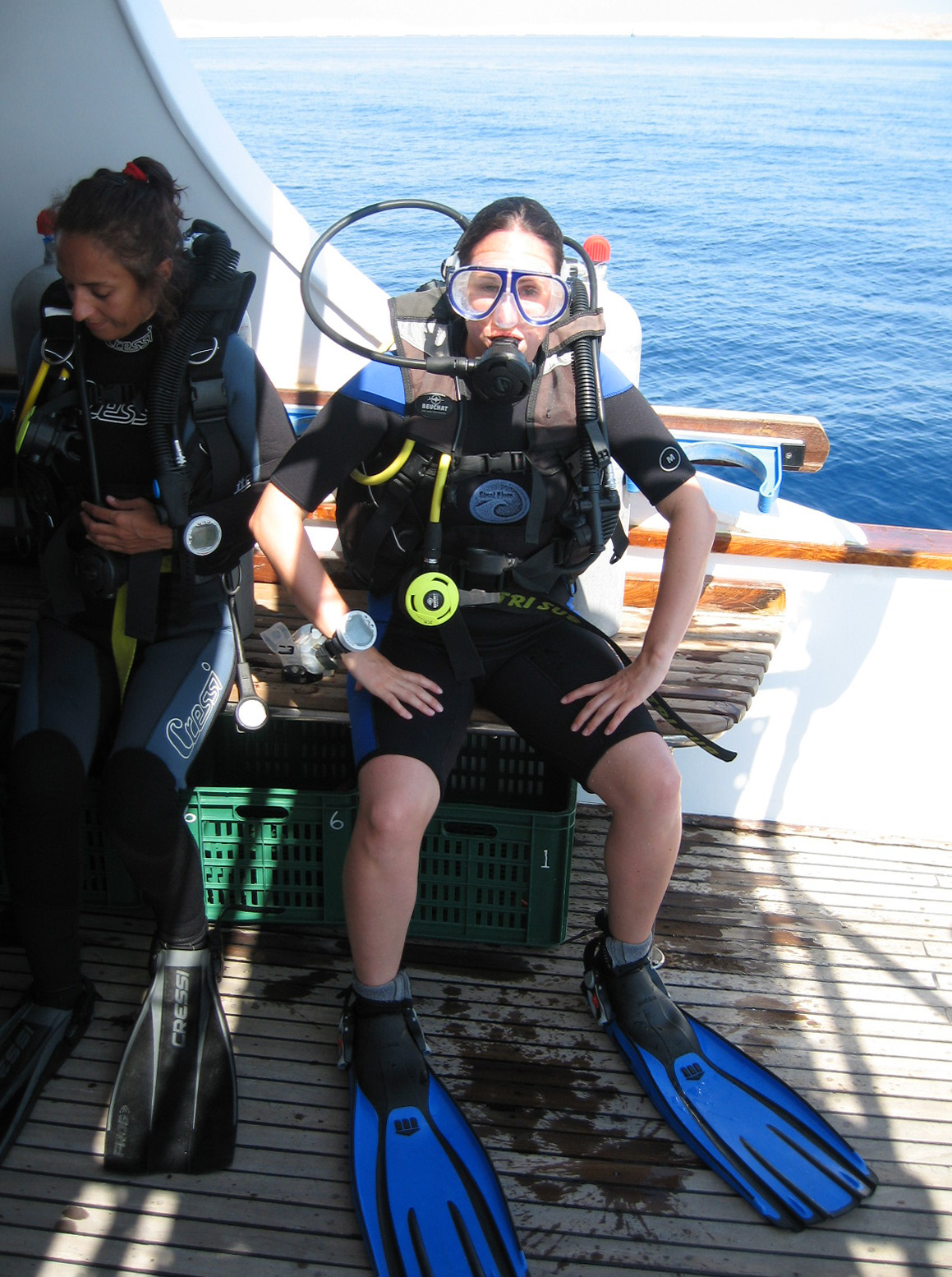 Experienced Divemaster kitted up and ready to dive